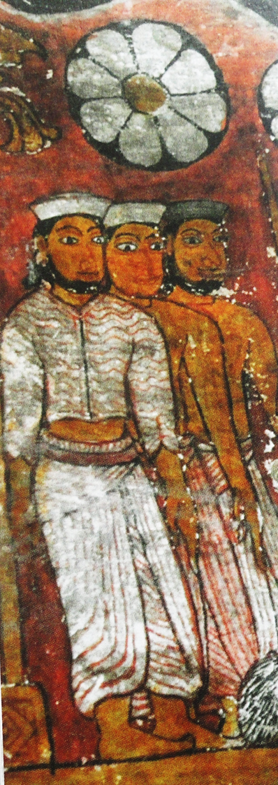 This is a image taken from a fresco a Sri Wanasinghe Viharaya